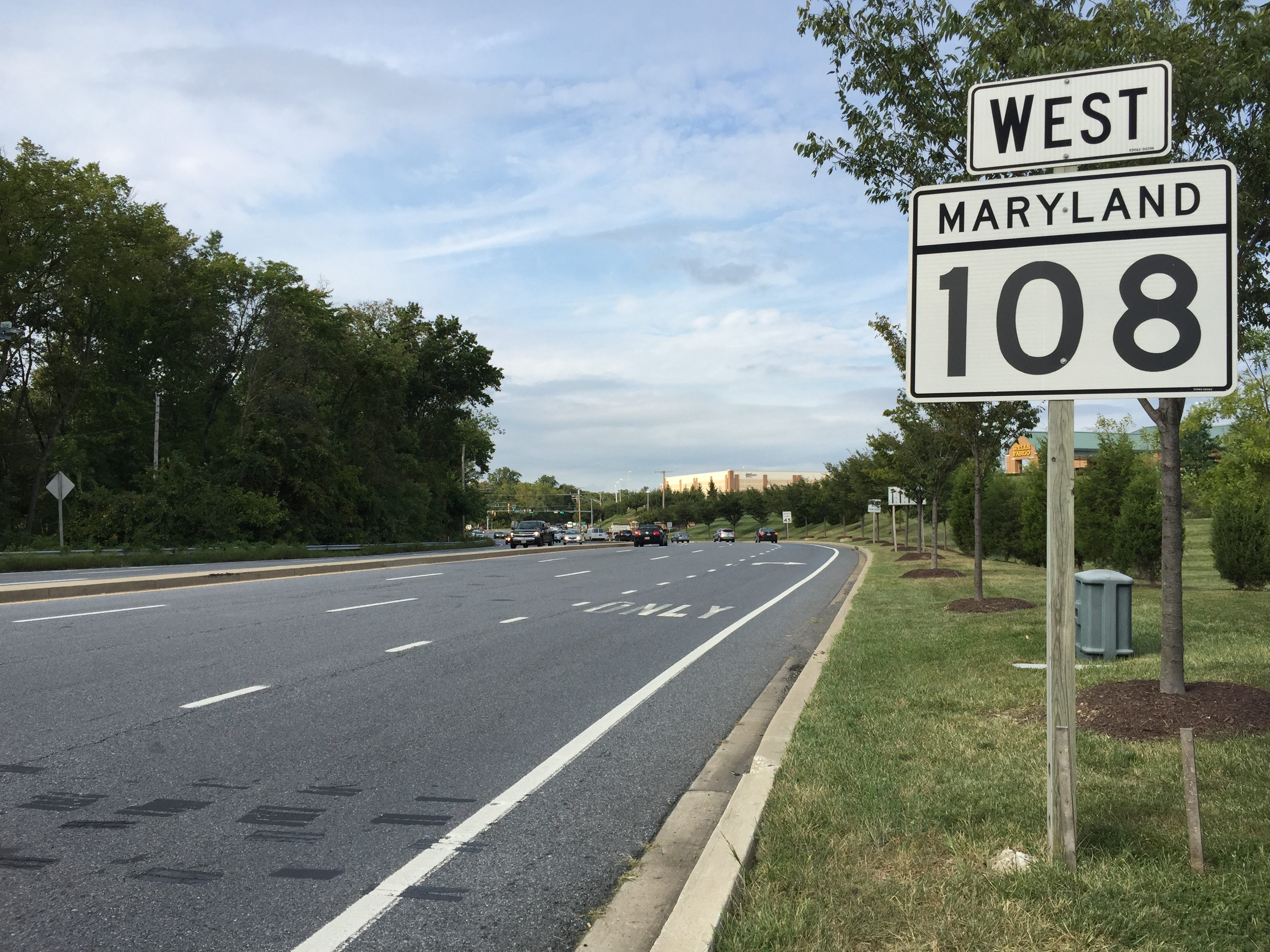 View west along Maryland State Route 108 (Waterloo Road) at Maryland State Route 175 (Rouse Parkway) in Columbia, Howard County, Maryland